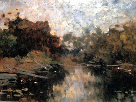 Het balkengat’ oil-painting by Marie Bilders - Van Bosse, c. 1890s; photo by Hanneke Oberink